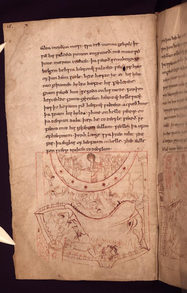 'The Cædmon Manuscript': parts of Genesis, Exodus and Daniel in Old English verse, illustrated with Anglo-Saxon drawings, c. A.D. 1000.; 16